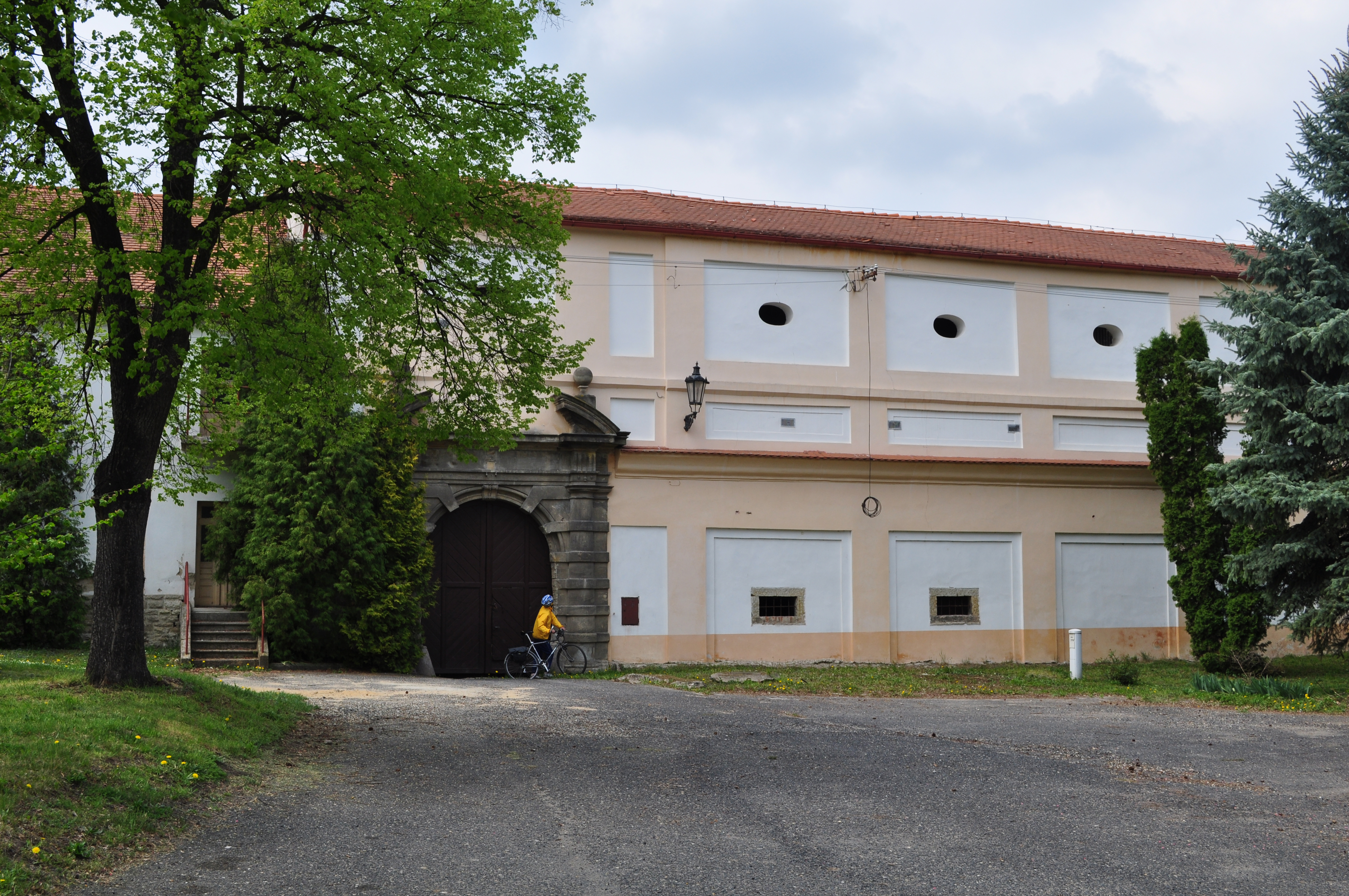 Pátek - Castle